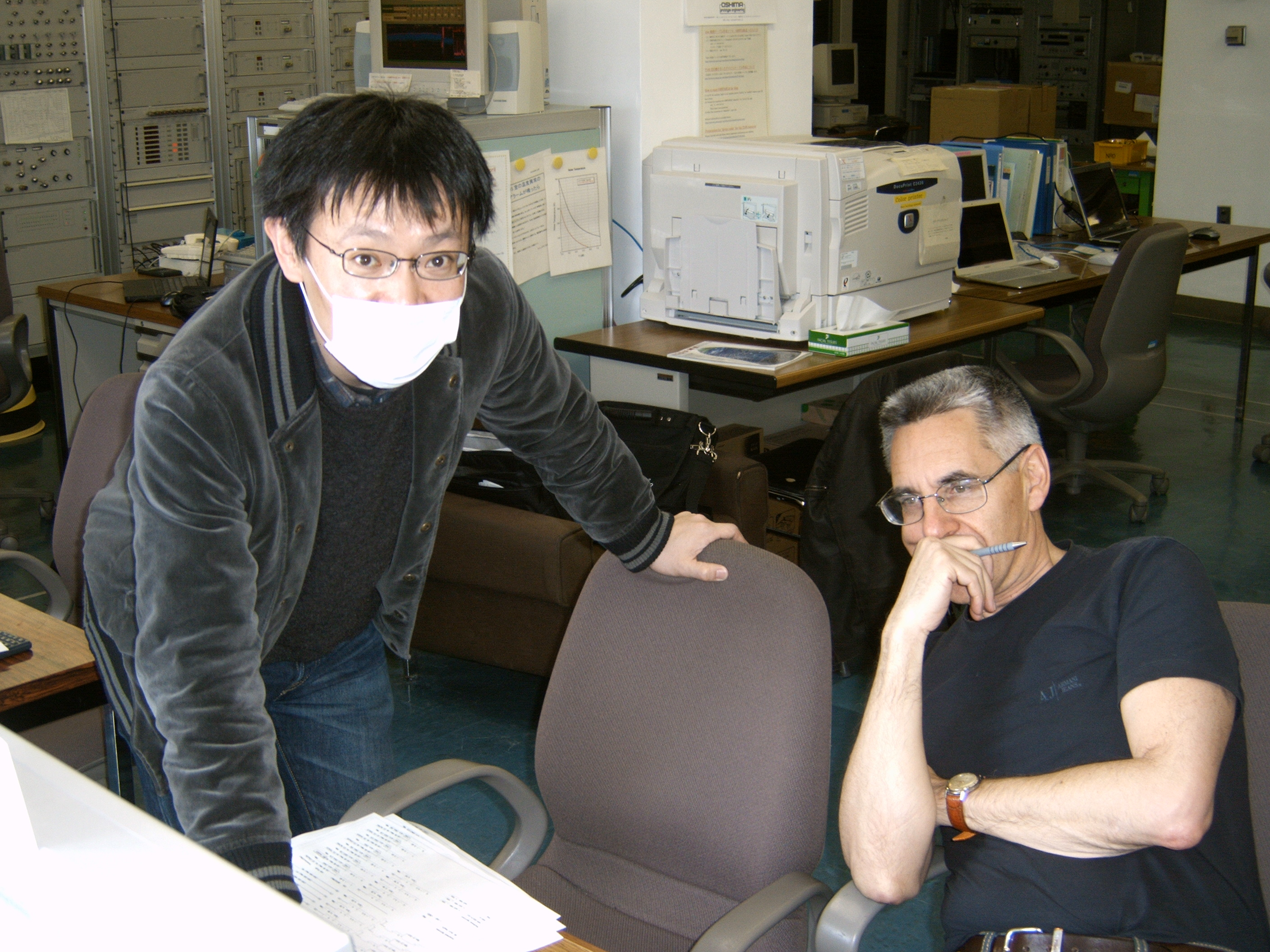 Incredible result! 2 astonished scientists at work.